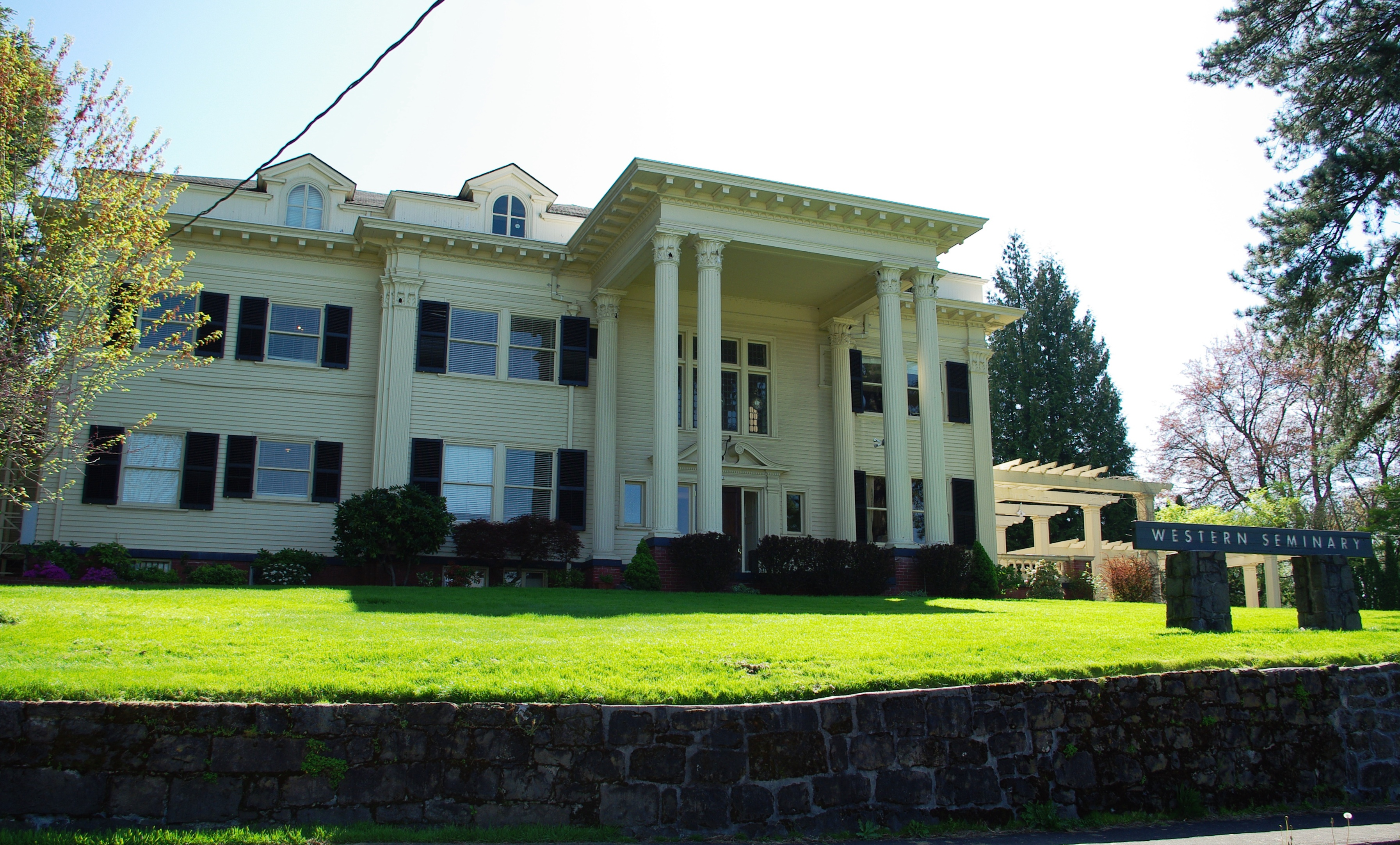 Armstrong Hall at Western Seminary in Portland, Oregon. Listed on the National Register of Historic Places as the Philip Buehner House.